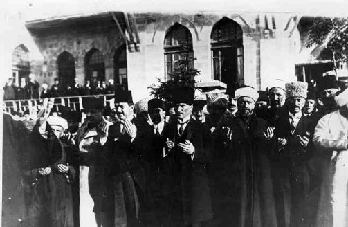 Mustafa Kemal Pasha and his colleagues praying in the front of the Grand National Assembly, April 23, 1920.